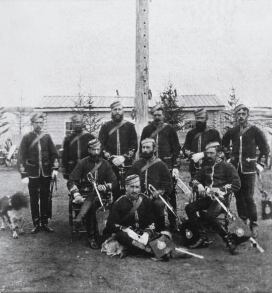 Photograph, North West Mounted Police officers, Fort Walsh, SK, 1878, Auderton George, Silver salts on paper mounted on paper - Albumen process - 7.8 x 12.7 cm